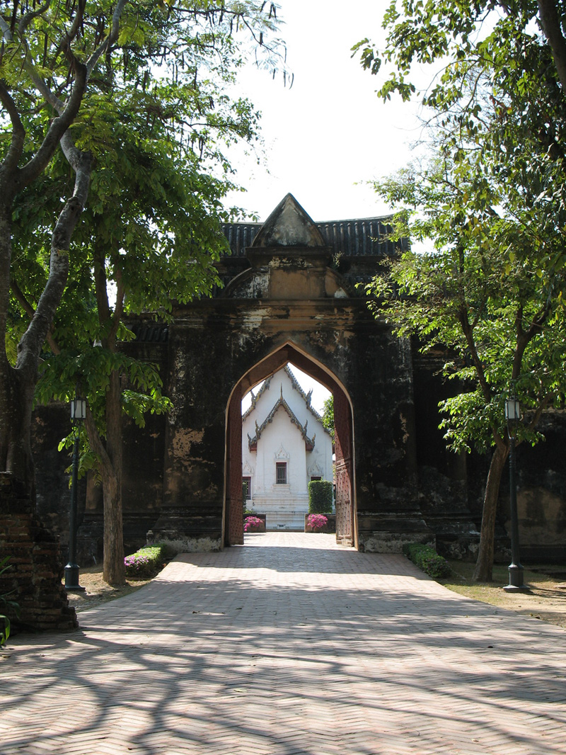 King Narai Palace Inner Gate, Lopburi Province.